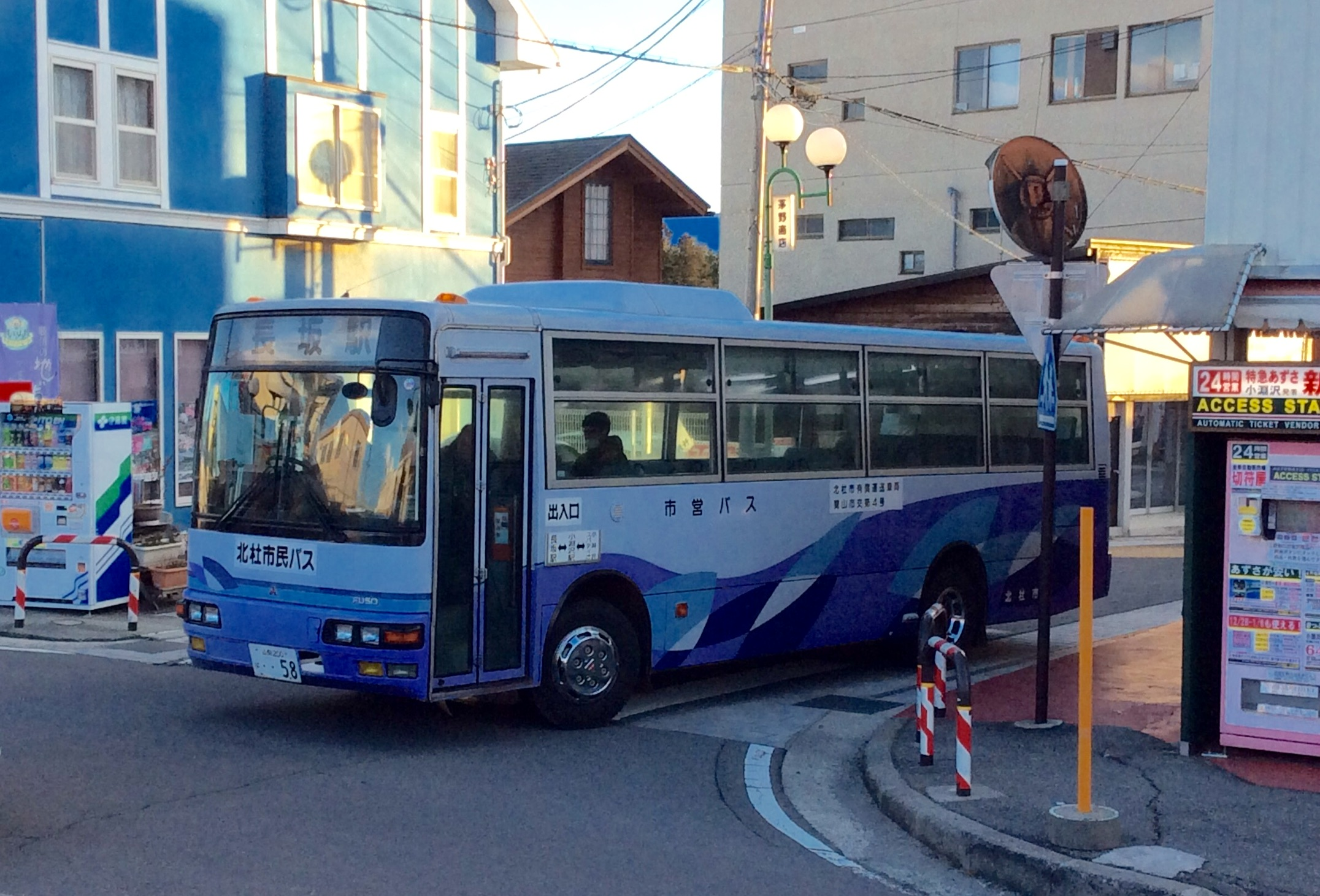 Hokuto city bus (at Kobuchizawa station)